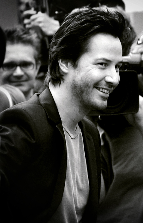 Keanu Reeves at The Lake House London premiere